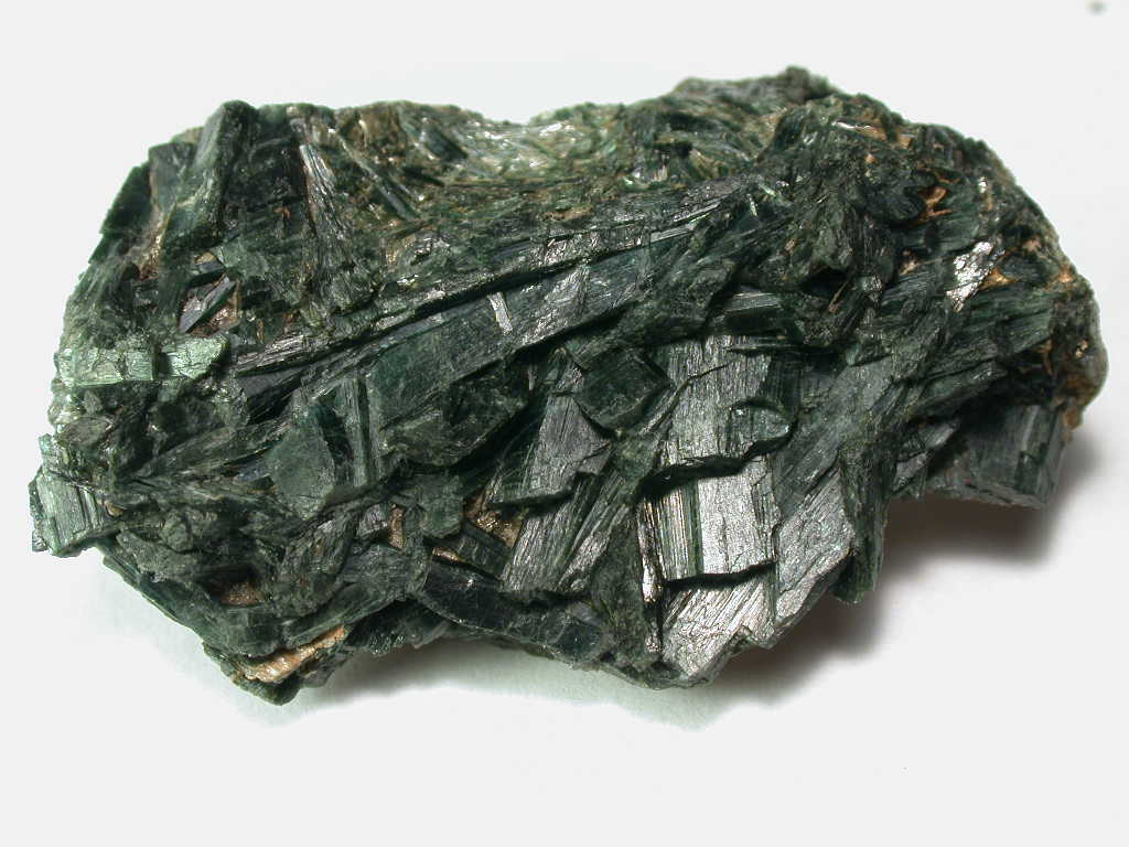 Actinolite Locality: Mendocino County, California, USA Original description: A 4.7 by 3.0 cms group of very dark green crystals.